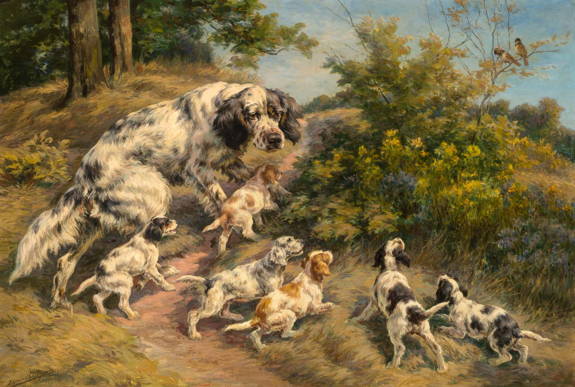 The First Lesson - A Setter and Her Six Pups by Edmund Henry Osthaus, oil on canvas, 30 x 44 inches (76.2 x 111.8 cm)